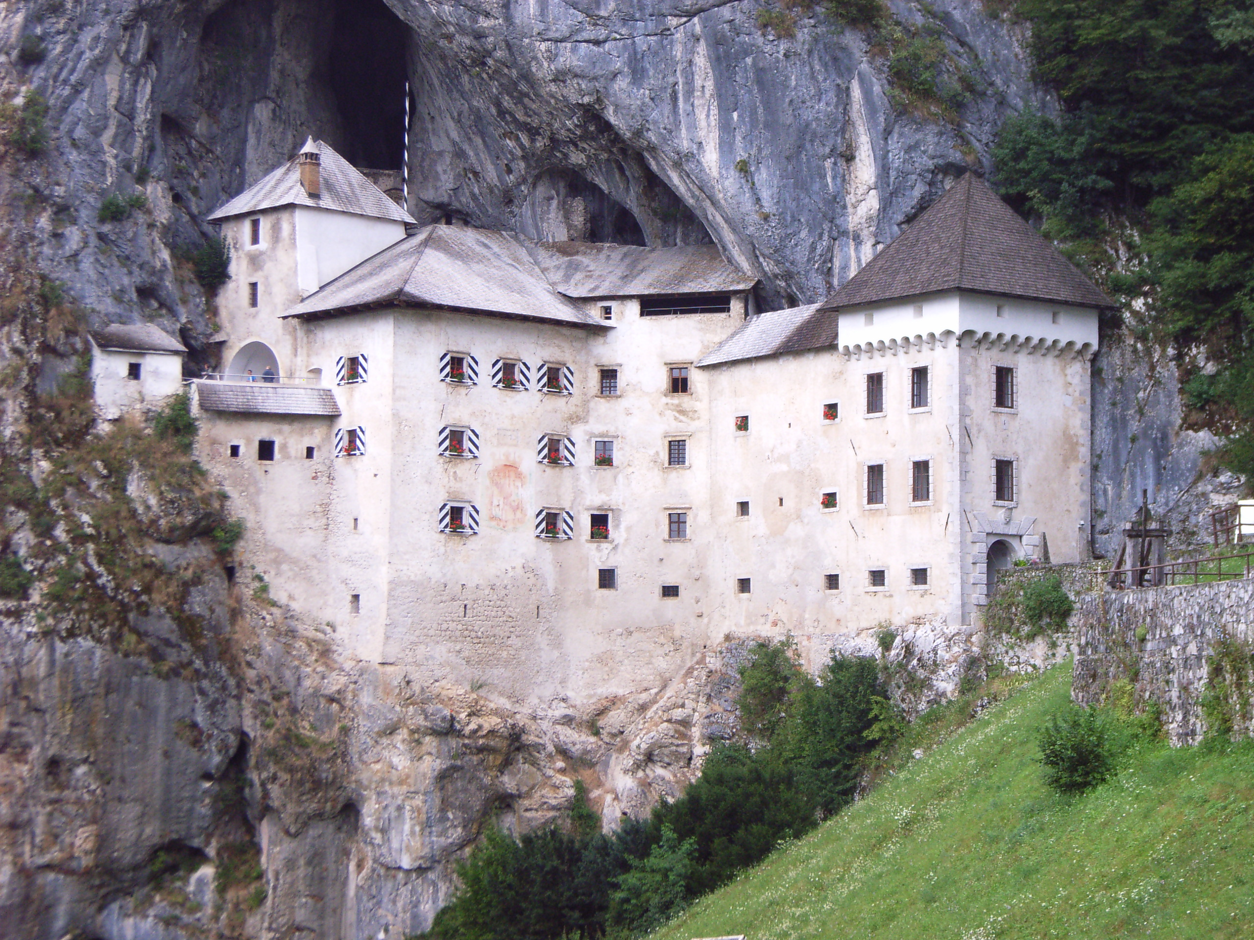 The 16th century castle was used in the Middle Ages by a robber baron because it's hard to conquer. It's located in the inland but is connected, through a cave, to a fertile area kilometers away.